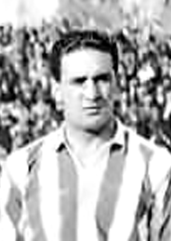 Athletic Club de Bilbao, 1930-31 Spanish League Champions. Line up: Muguerza, Chirri II, Urquizu, Lafuente, Blasco, Ispizúa, Uribe, Unamuno, Castellanos, Bata, R. Echevarría & Gorostiza